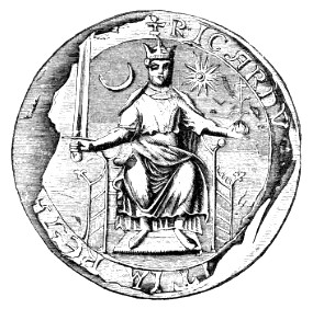 Seal of Richard I of England